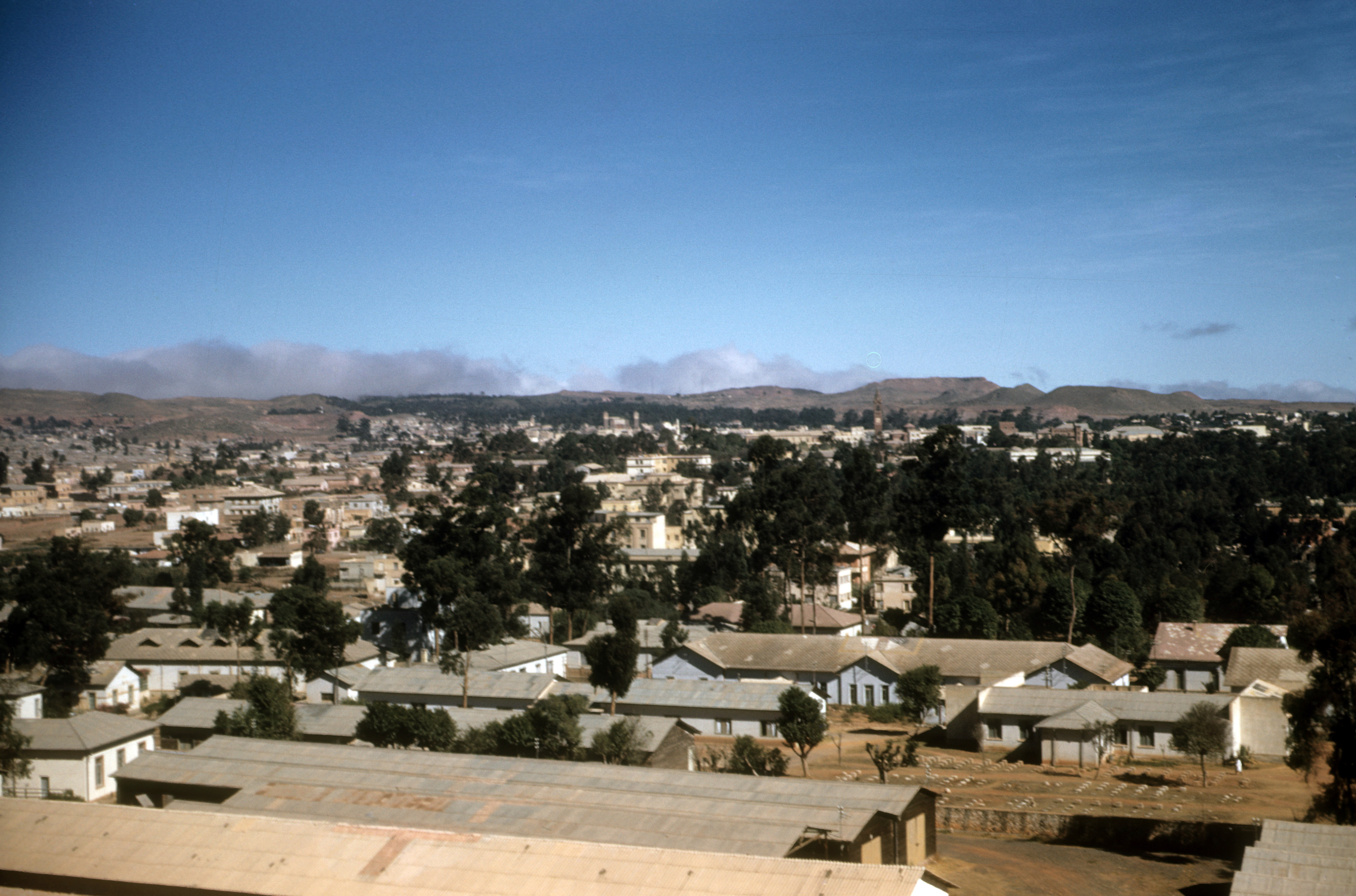 Pictures taken while stationed at U.S. Army Kagnew Station, Asmara, late 1940s.